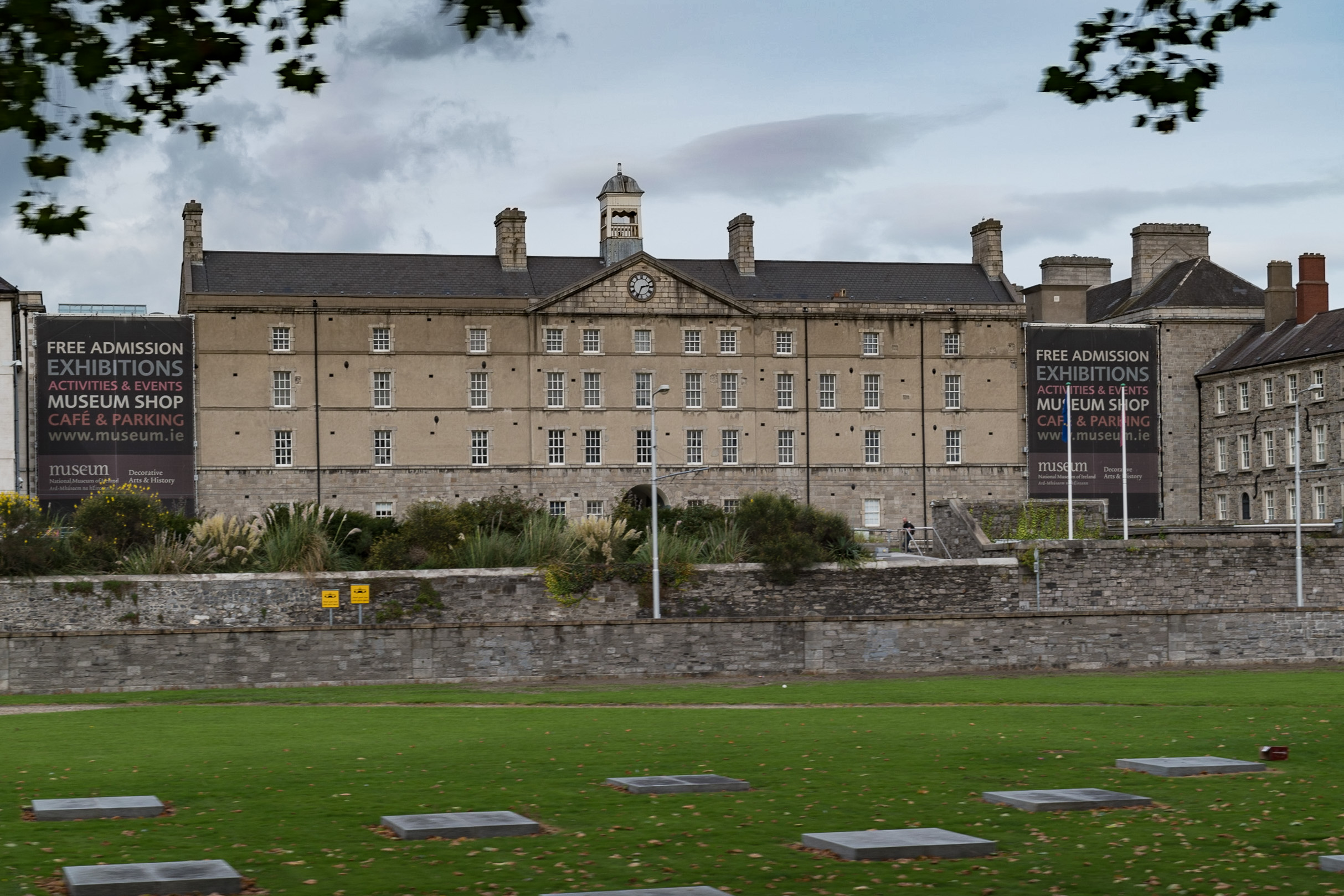 National Museum of Ireland, Dublin